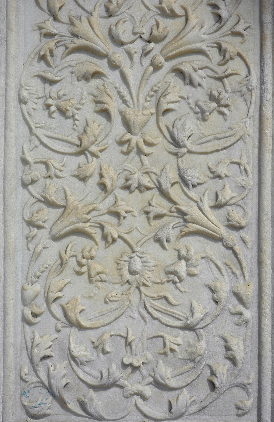 One of the decorations at the corners. The paintwork has been restored and gives extra splendor.